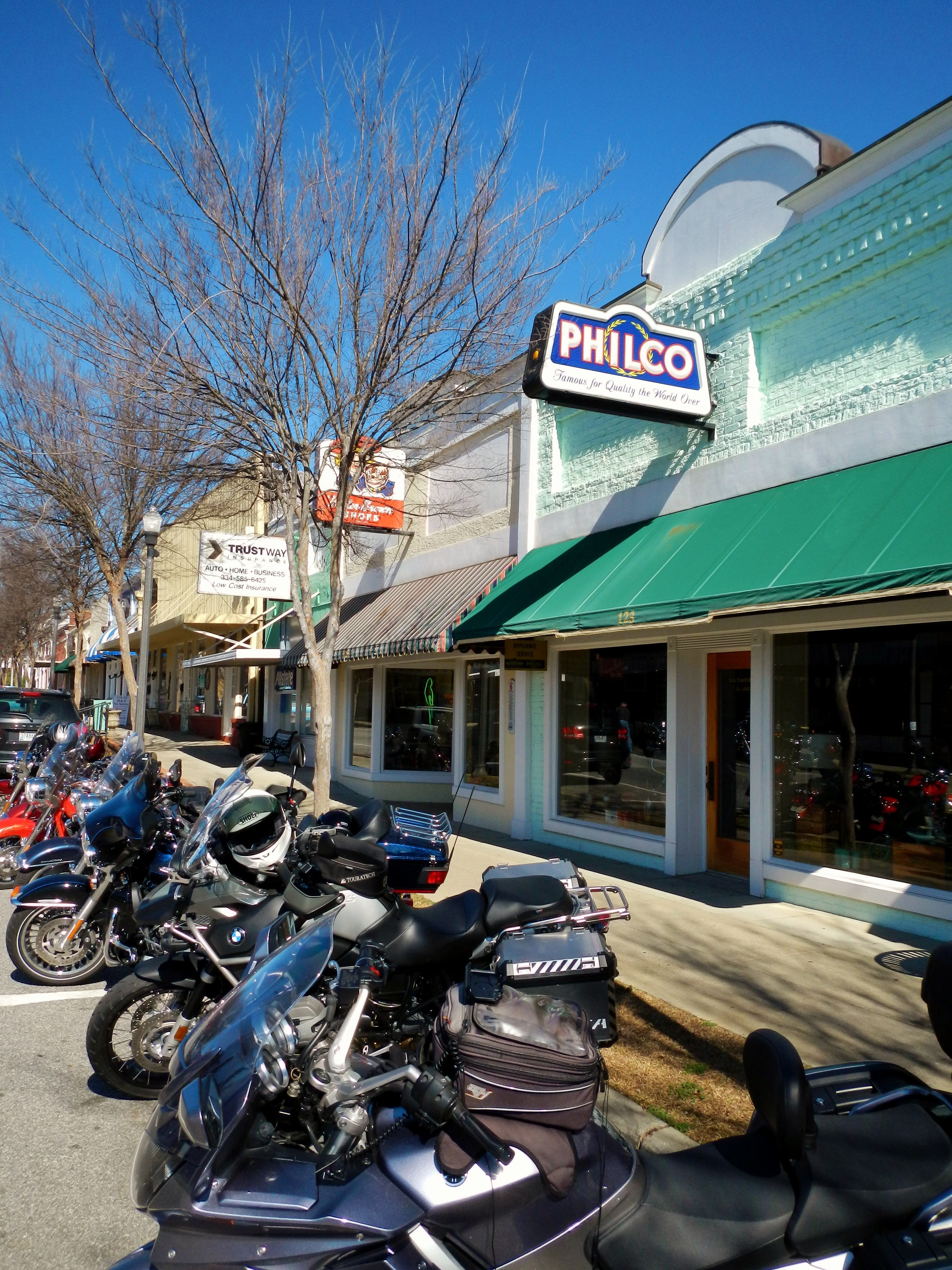 This is a photo of downtown Abbeville, Alabama.